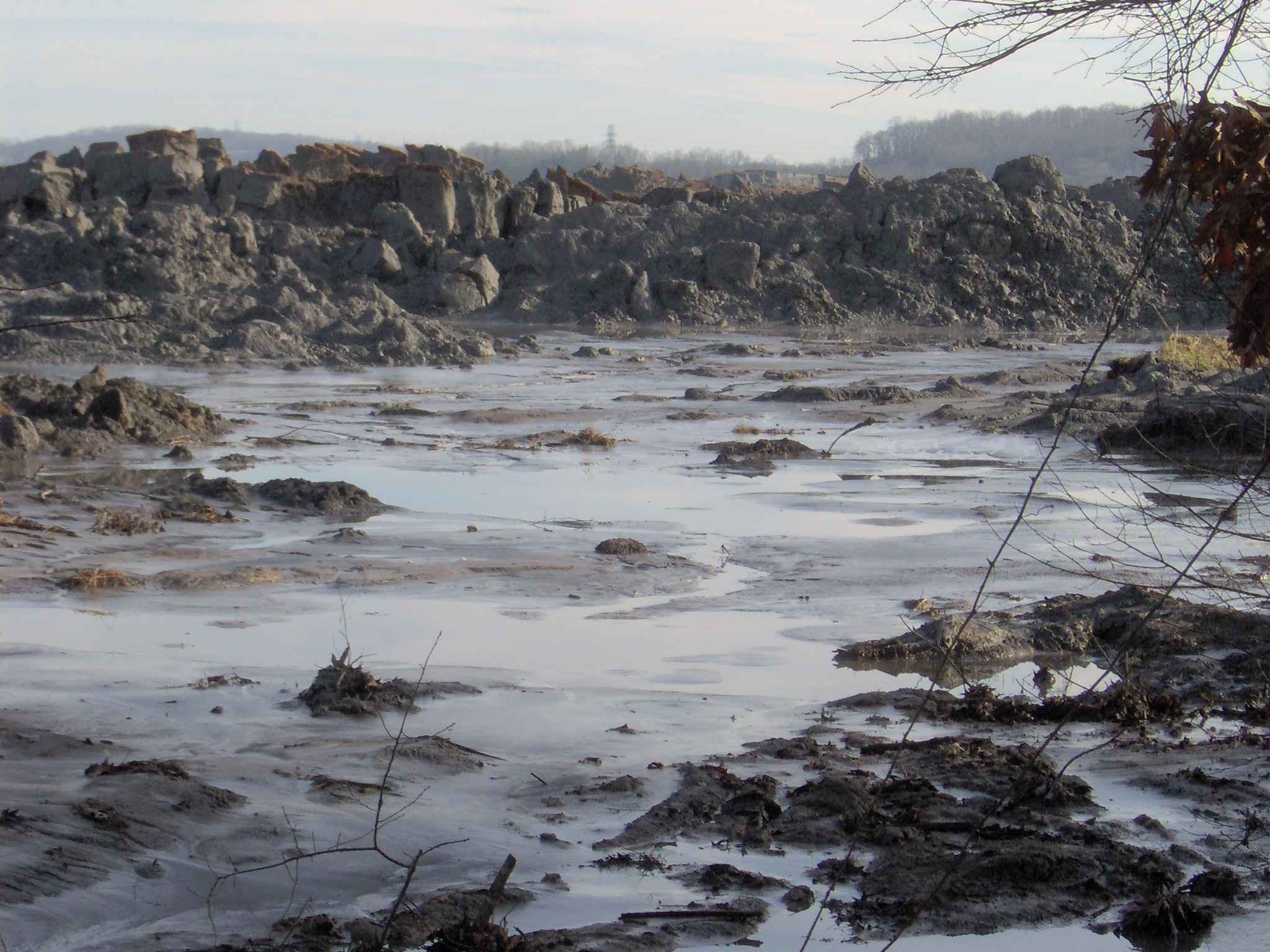 View of the TVA Kingston Fossil Plant fly ash spill, appx. 1 mile from the retention pond. This view is from just off Swan Pond Road. The pile of ash in the photo is 20-25 feet high, and stretches for two miles or so along this inlet (the inlet empties into the Emory River). Appx. coordinates: N 35.92087 W 84.51701